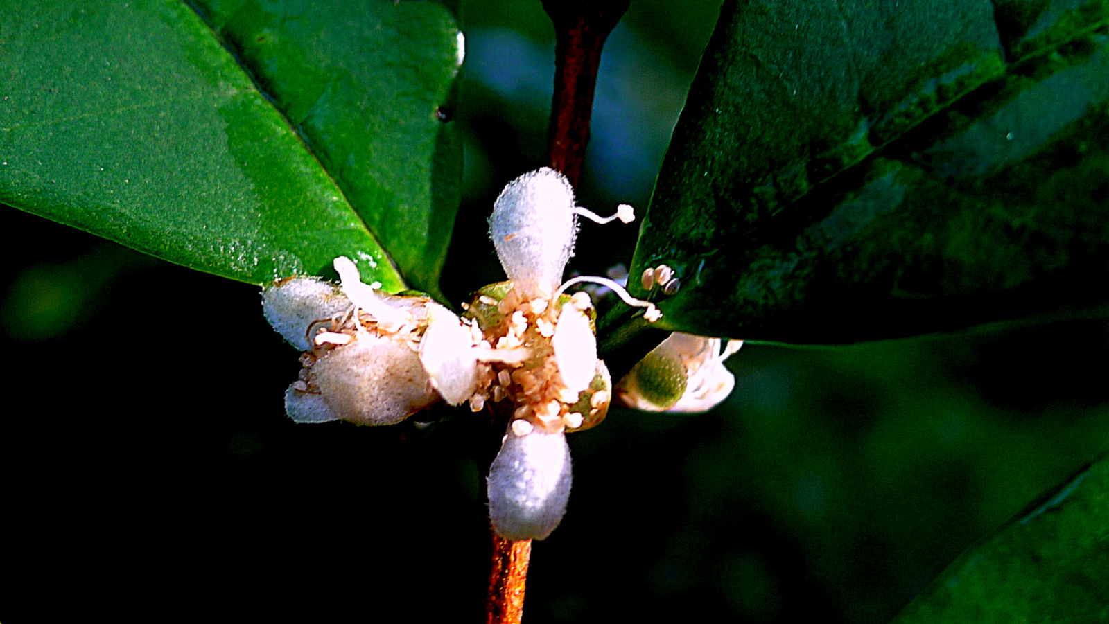 Eugenia plicatocostata O.Berg